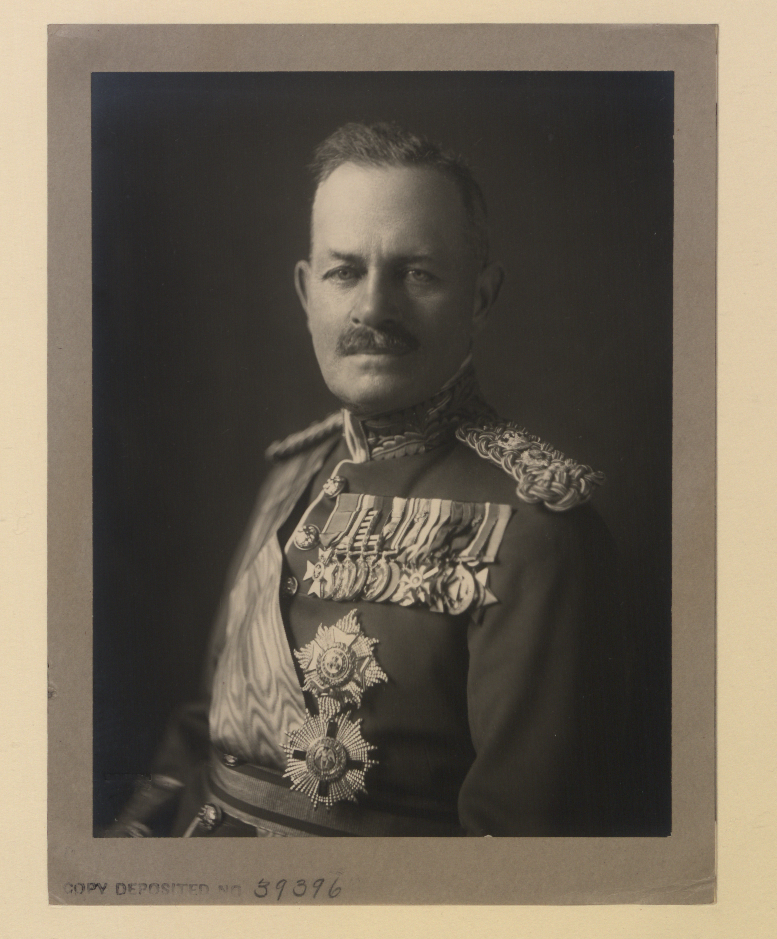 Lord Byng.